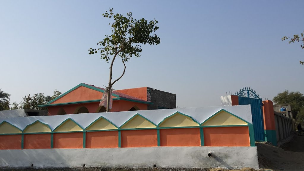 YOUNIS